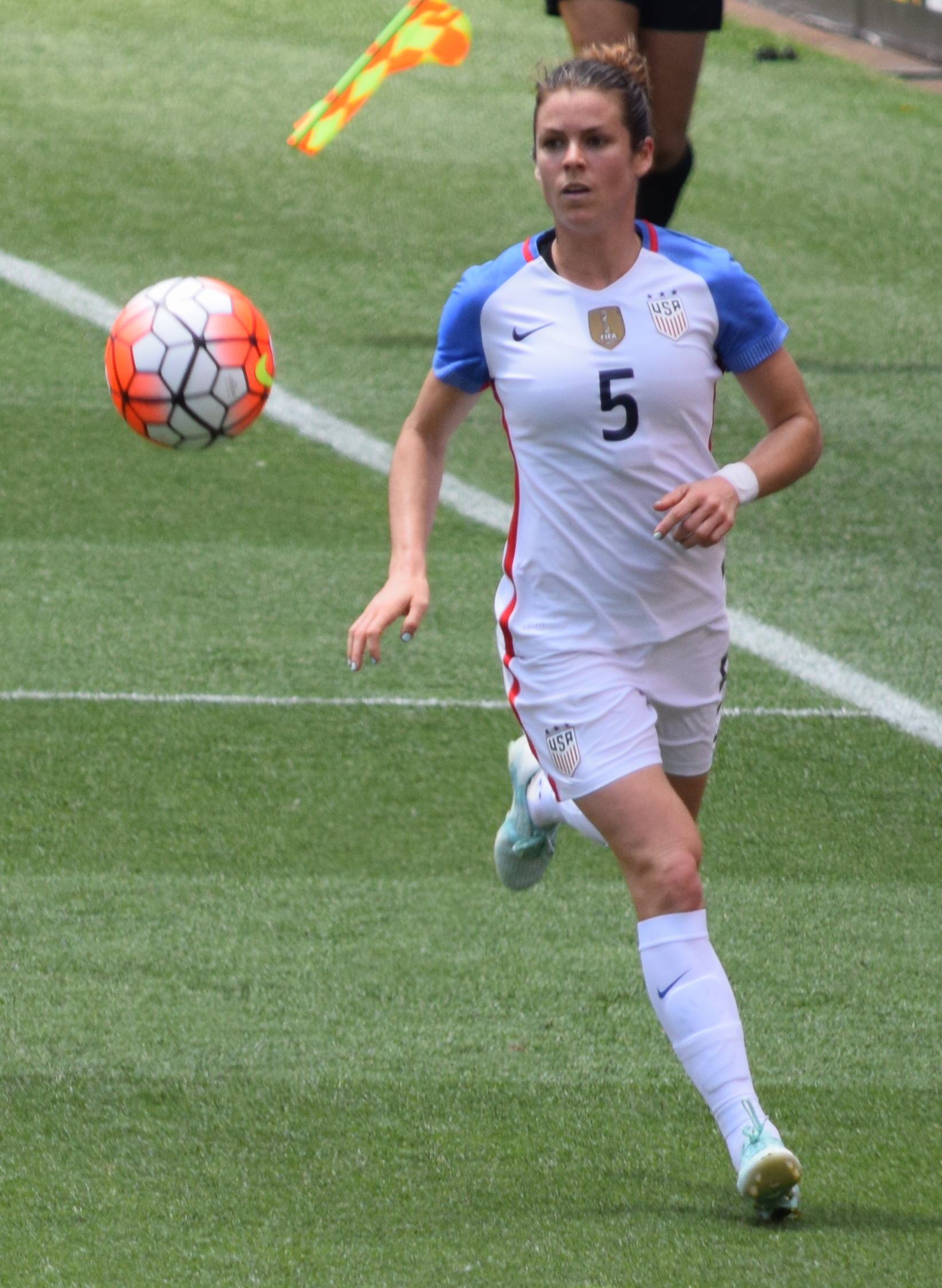 Kelley O'Hara with the United States Women's National Team during a match against Japan on June 5, 2016 in Cleveland, Ohio.